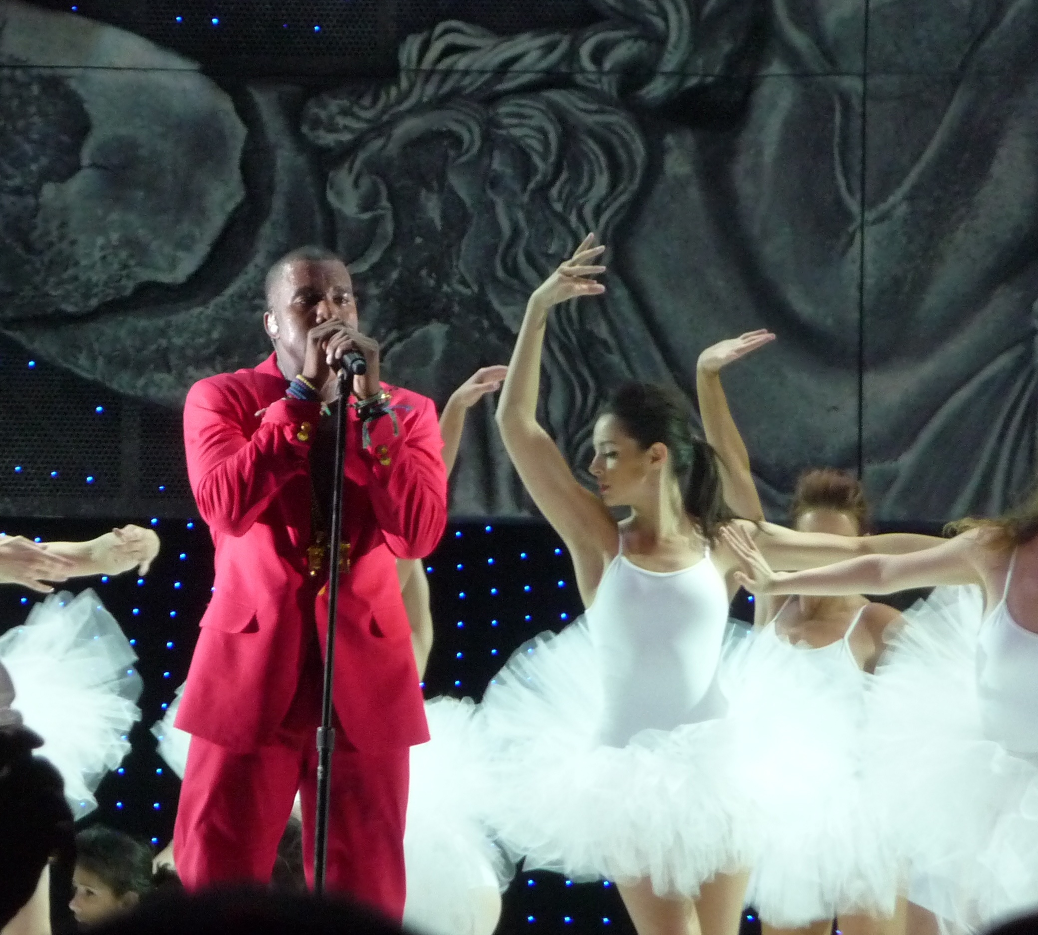 Kanye West performing the song "Runaway" at Coachella on April 17, 2011 in Indio, California.